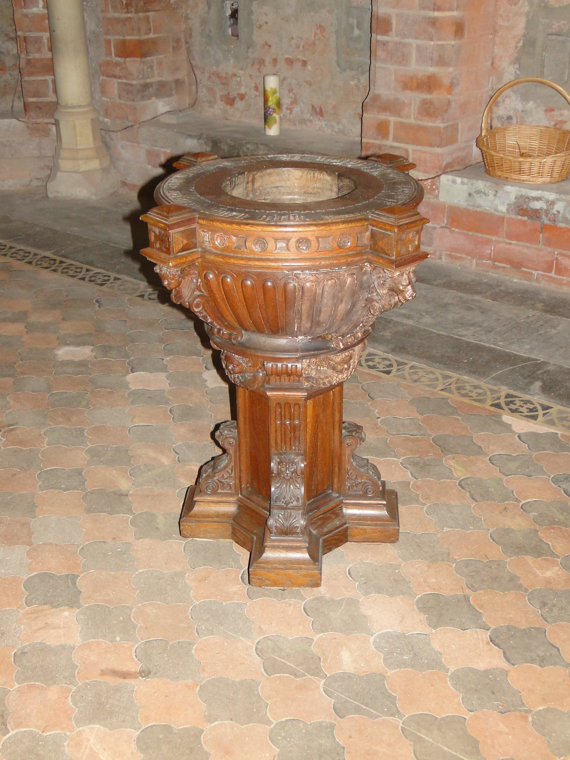 Baptismal font in the Monastery in Dobbertin, district Parchim, Mecklenburg-Vorpommern, Germany